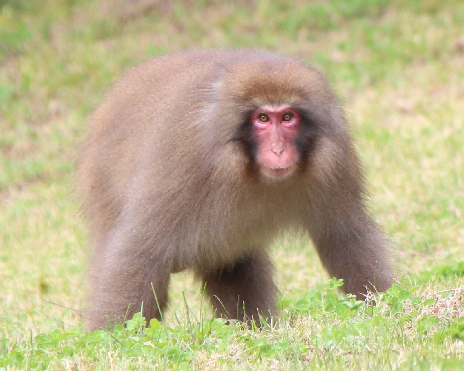 Macaca fuscata fuscata (Japanese macaque) around Mount Ontake in Japan.